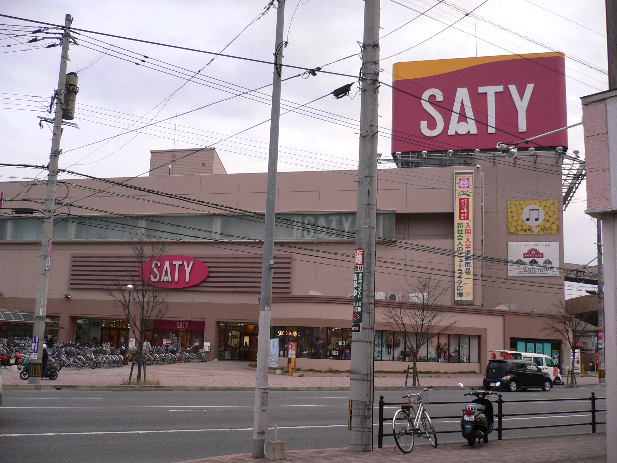 This is a shopping center in Hara.